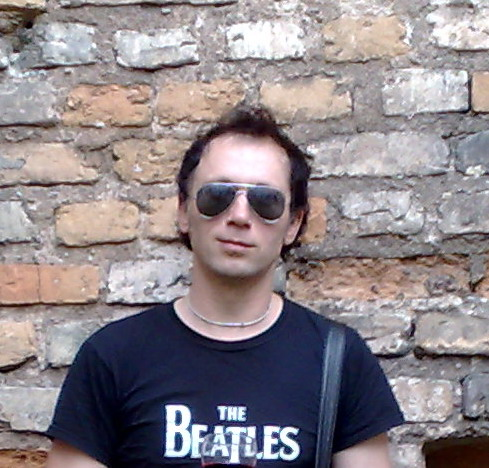 Linas Cicenas 2009